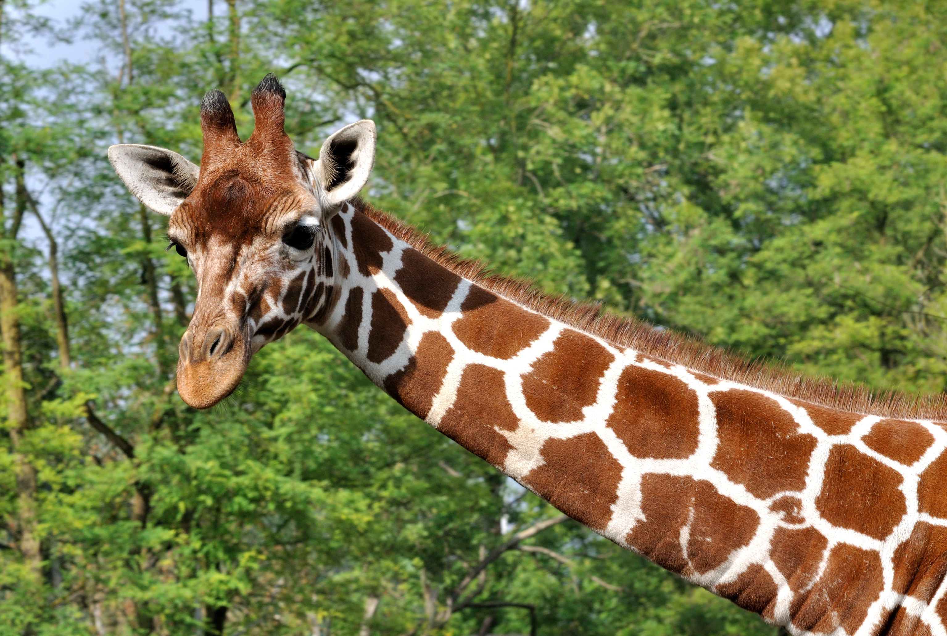 Reticulated Giraffe (Giraffa camelopardalis reticulata) in the Tierpark Hellabrunn, Munich, Germany.